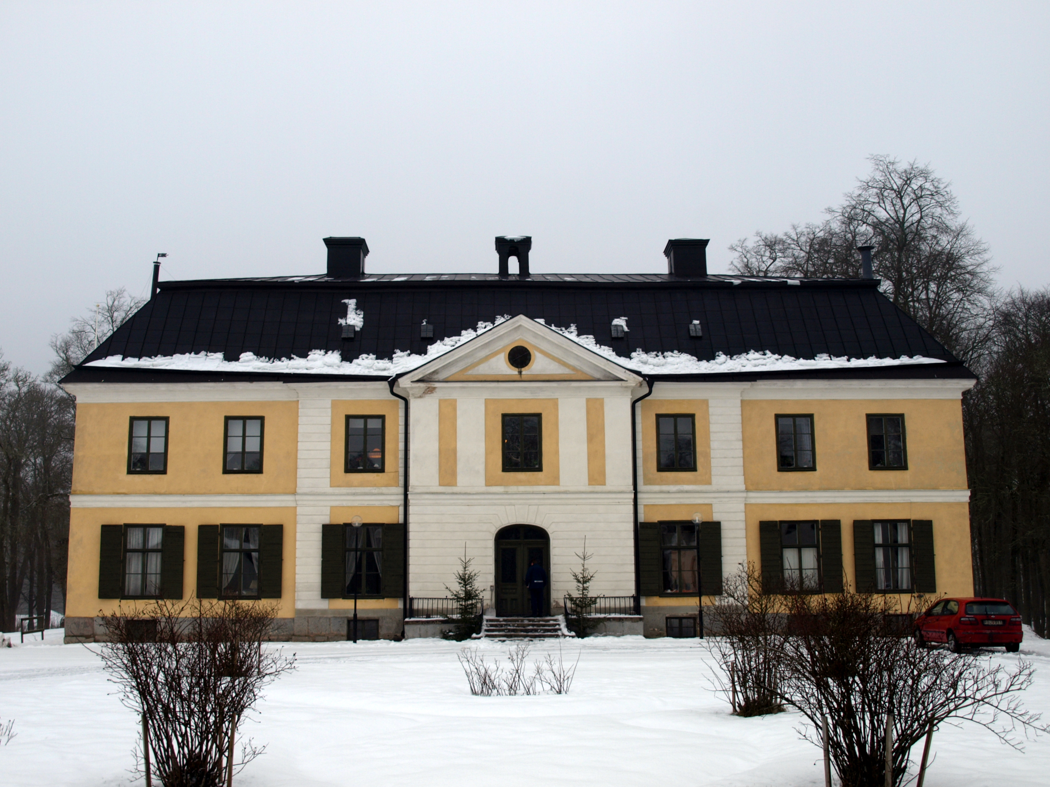 Sätuna Mansion, also called Sätuna Castle. Located outside Björklinge, north of Uppsala, Sweden.